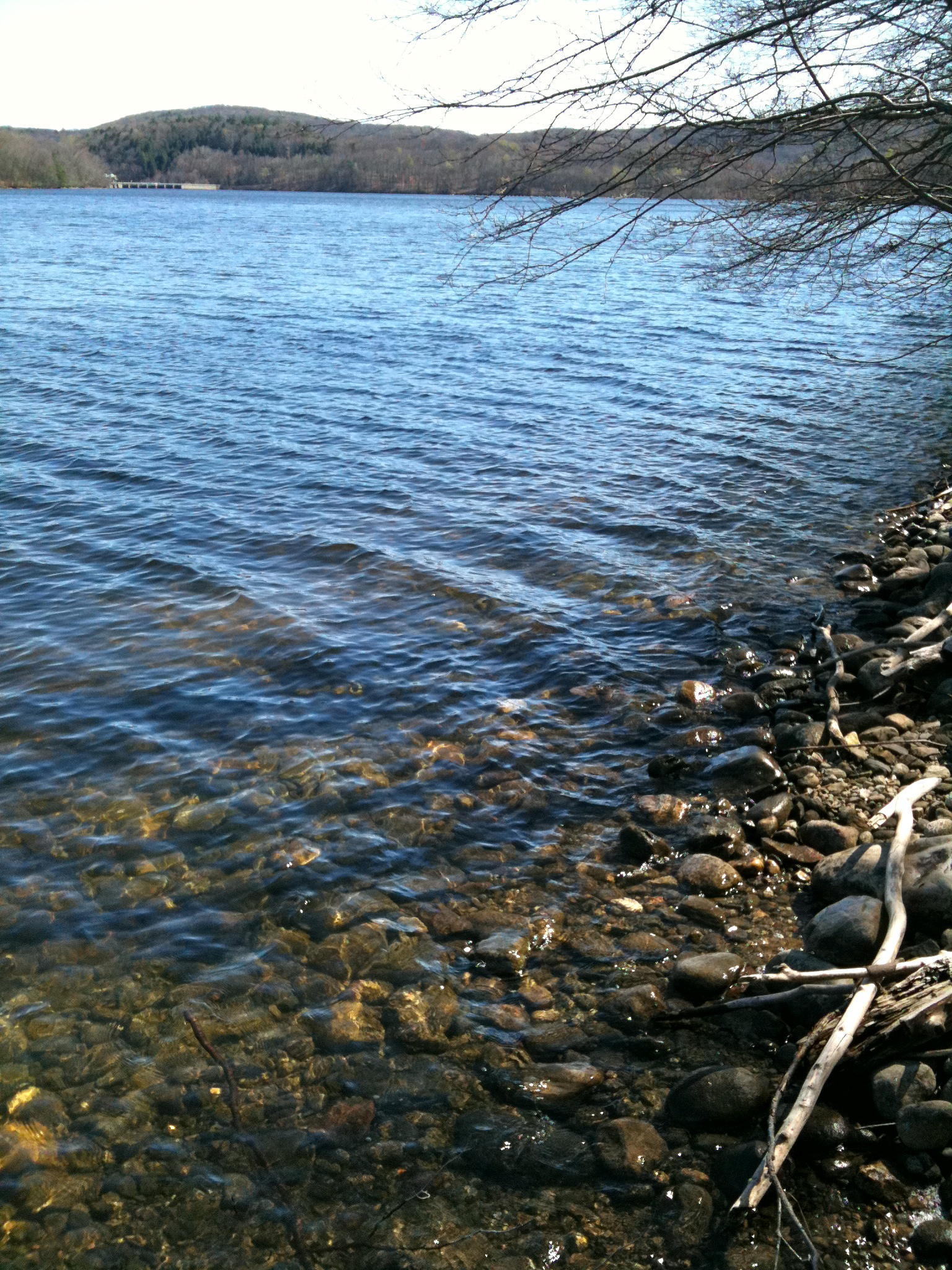 Lillinonah Trail. Blue-Blazed CFPA foot path which circles the upper Paugussett State Forest (and Lake Lillinonah/Housatonic River) in Newtown, CT. Southern Lake Lillionah facing south from Lillinonah Trail. Blue-Blazed CFPA foot path which circles the upper Paugussett State Forest (and Lake Lillinonah/Housatonic River) in Newtown, CT